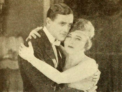 Still from the American film For the Defense (1922) with Vernon Steele and Ethel Clayton, on page 60 of the May 1922 Photoplay.